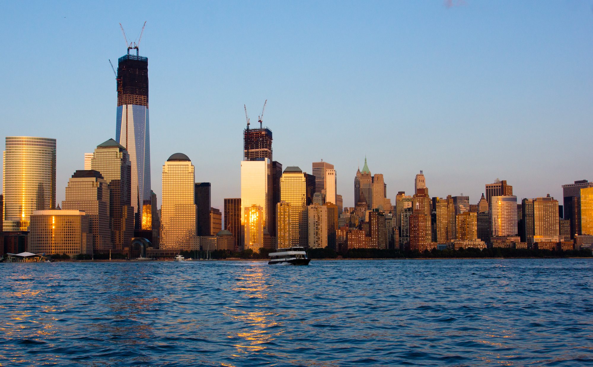 View from New Jersey to Lower Manhattan with the World Trade Center under construction. 1 WTC at the left hand side, 4 WTC is located at right. The World Financial Center in the foreground.